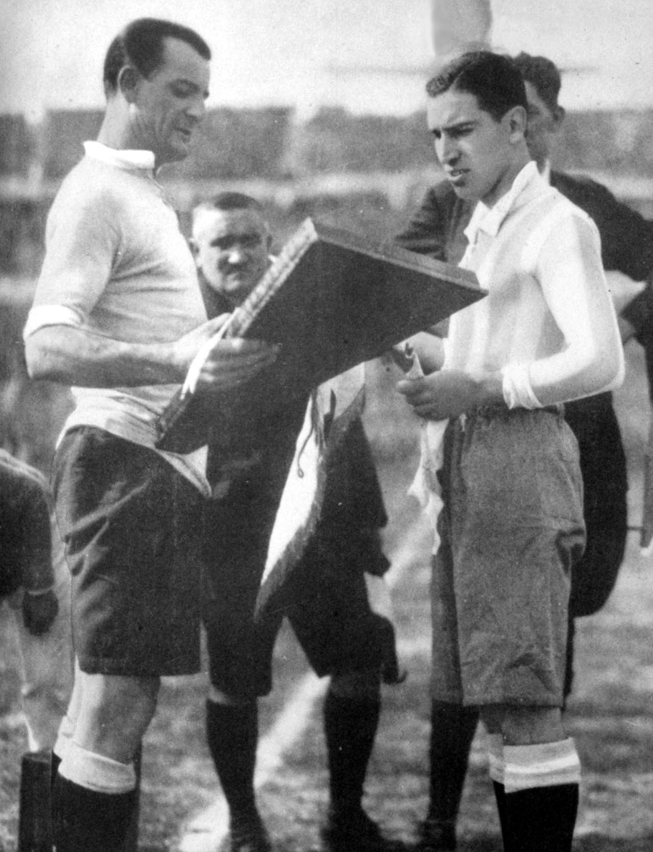 José Nasazzi and Nolo Ferreira before the Uruguay v Argentina final.